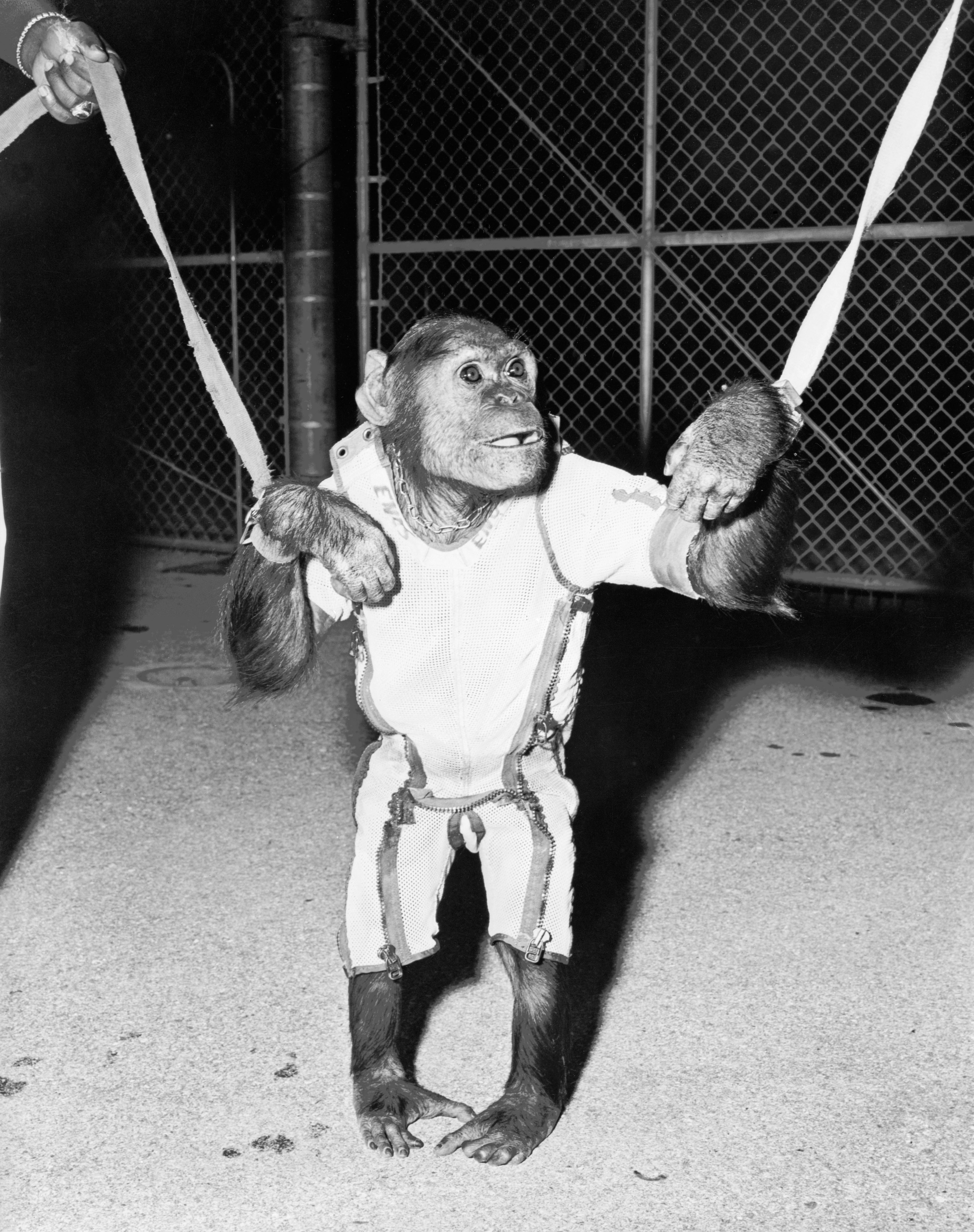 Enos, the chimpanzee that orbited Earth twice in a Mercury spacecraft, is pictured wearing a spacesuit and wrist tethers. Enos landed some 220 nautical miles south of Bermuda and was picked up by the USS Stormes. His medical debriefing at Bermuda showed he had no ill effects from his space ride.